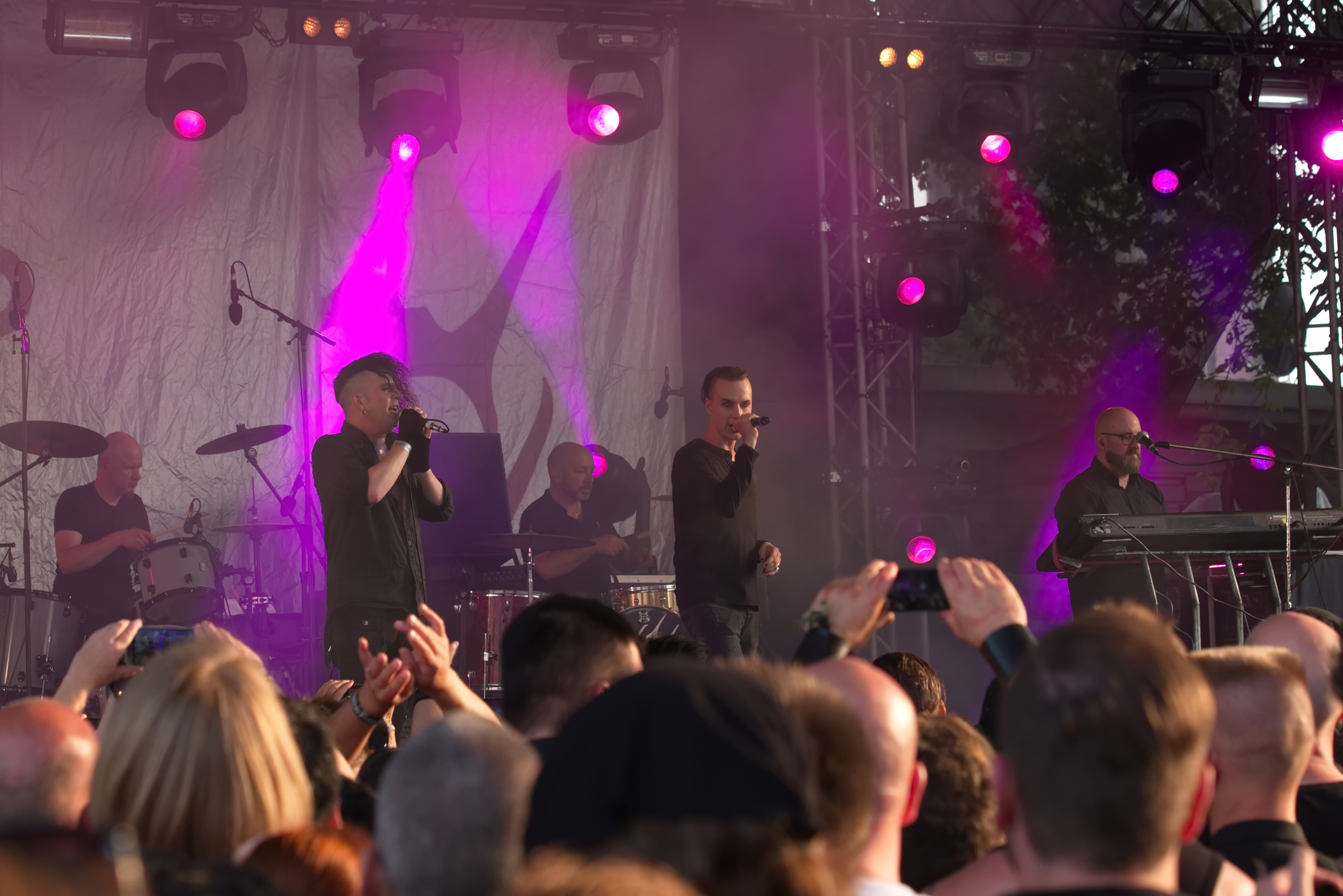 Project Pitchfork, Amphi festival 2016